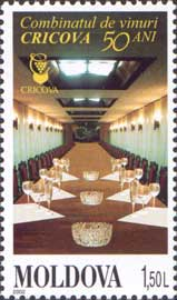 Stamp of Moldova